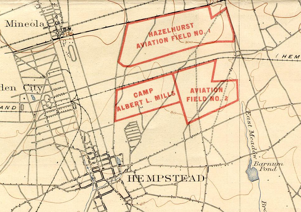 1918 USGS topo map showing location of Camp Mills, Long Island, New York